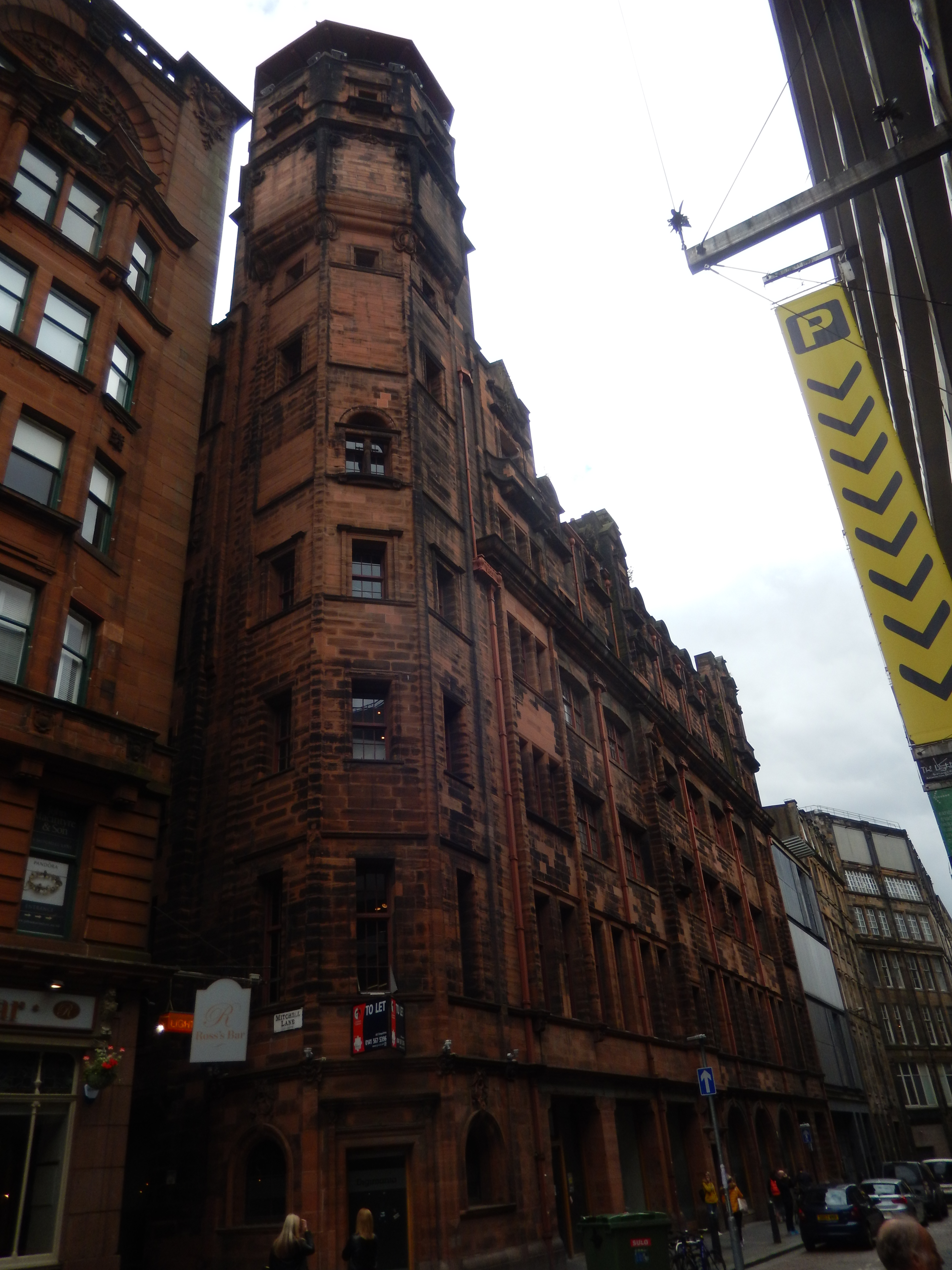 60 - 76 (even) Mitchell Street, Glasgow Herald Building Wikidata has entry Q17568422 with data related to this item.